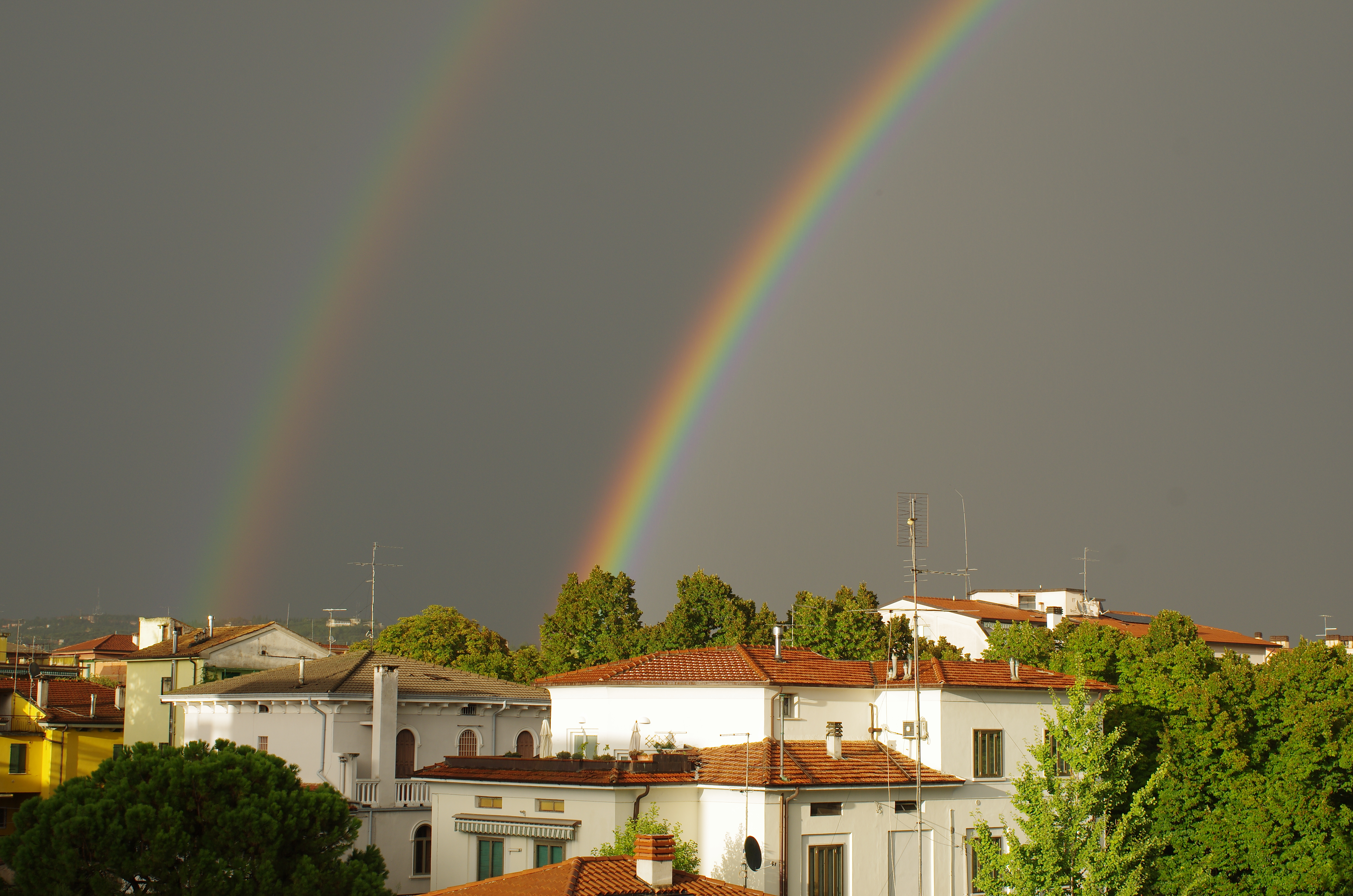 2018 09 photo Paolo Villa-Category-Verona rainbows-Arcobaleno doppio arco-PENTAX K-5 II-smc PENTAX-FA 35mm F2 AL-primary and secondary rainbow with Alexander's dark band-Category-Double rainbows in Italy-Category-Supernumerary rainbows